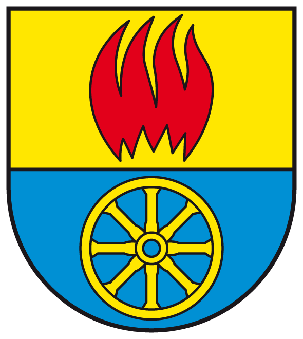 Coat of Arms of Jesendorf